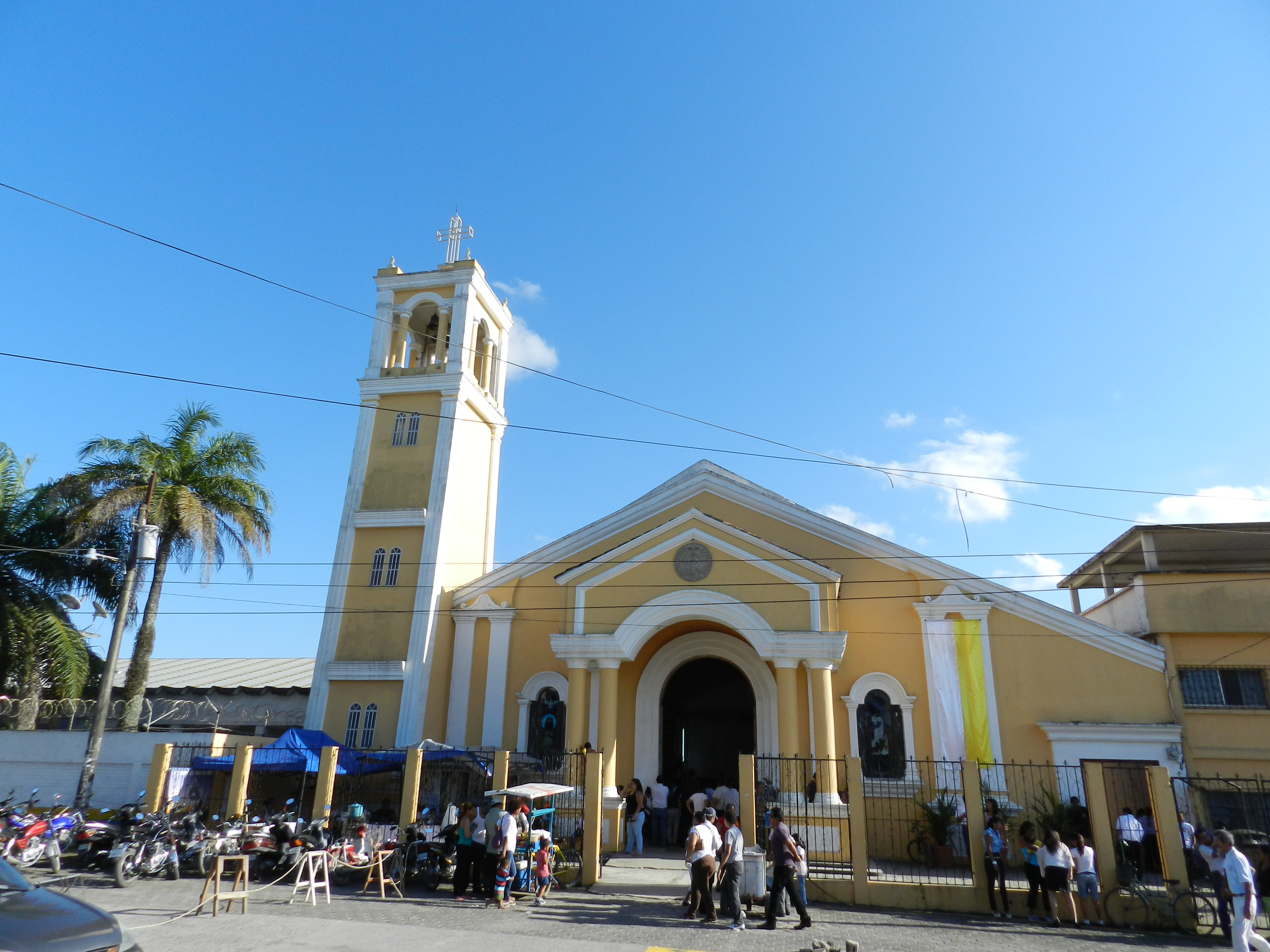 Cathedral de Izabal, Puerto Barrios, Guatemala